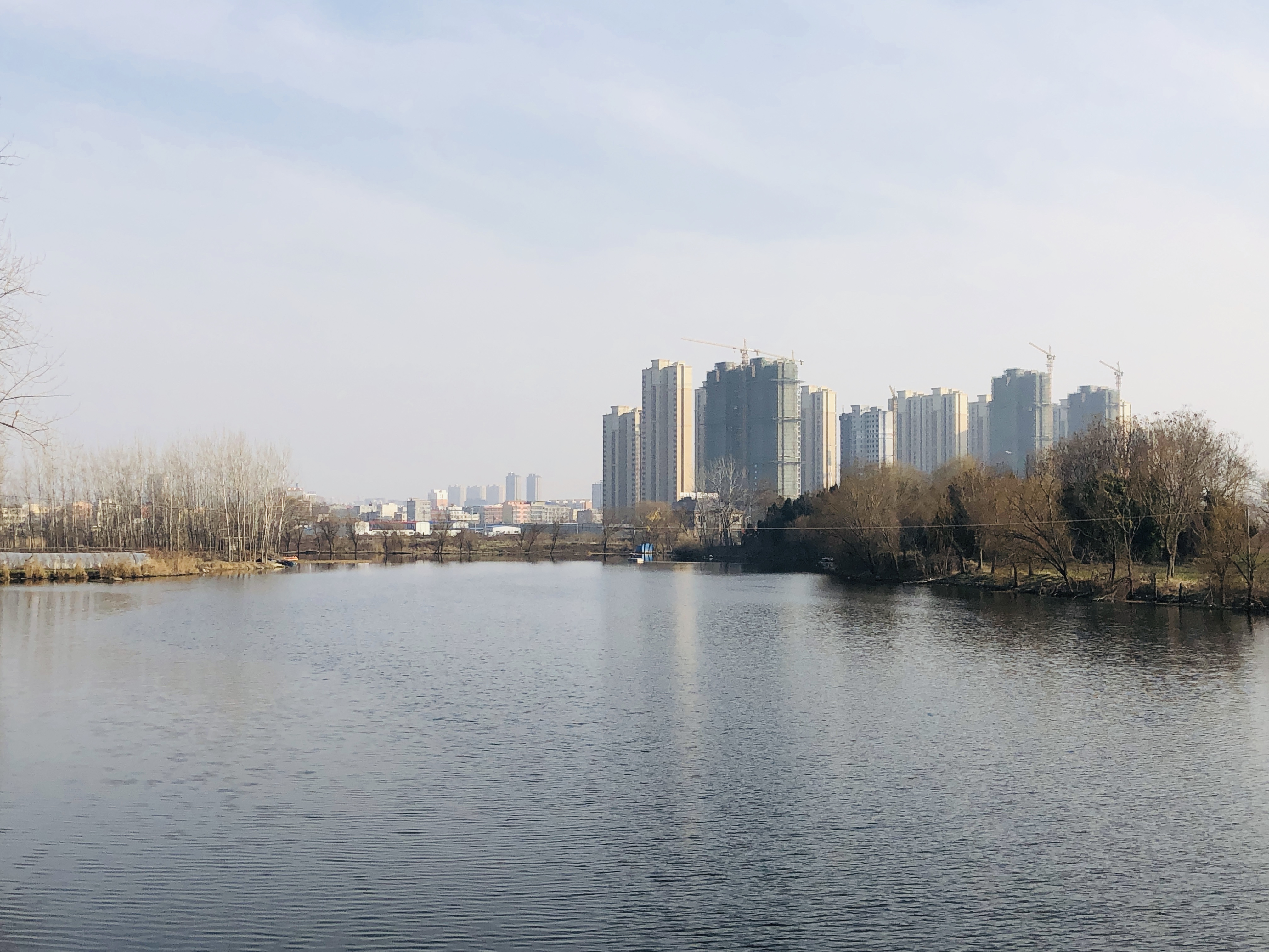 river view of Quan River